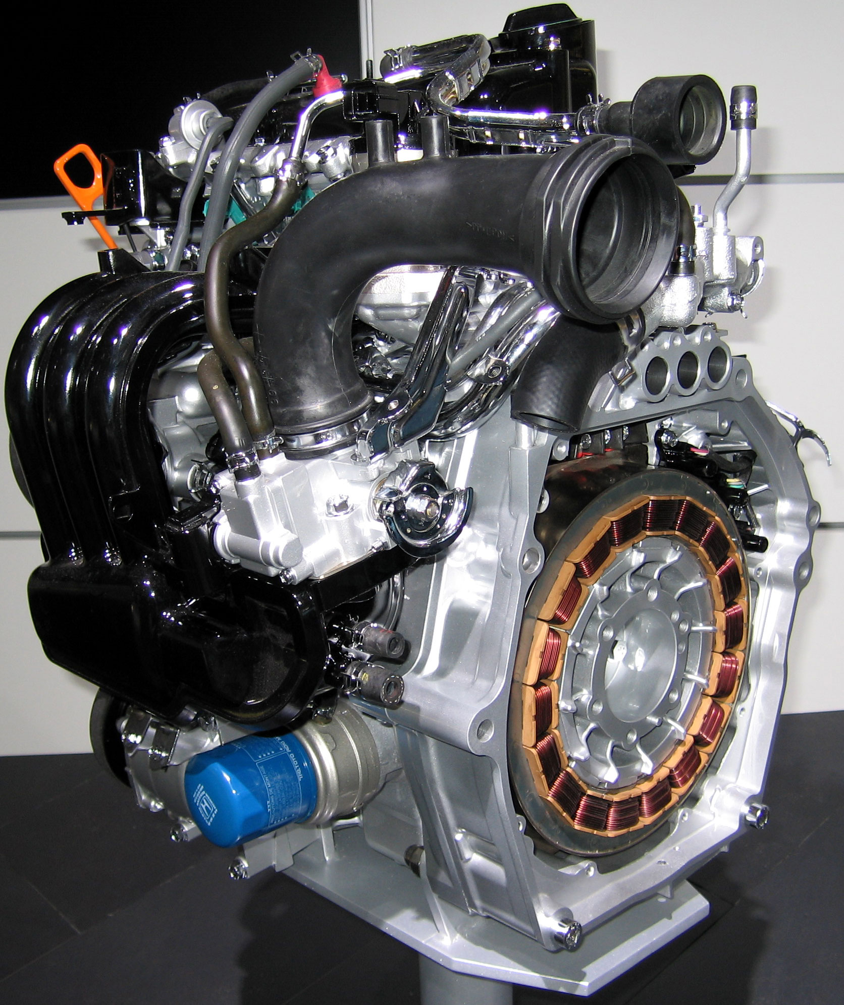 Honda Insight at the IAA 2007